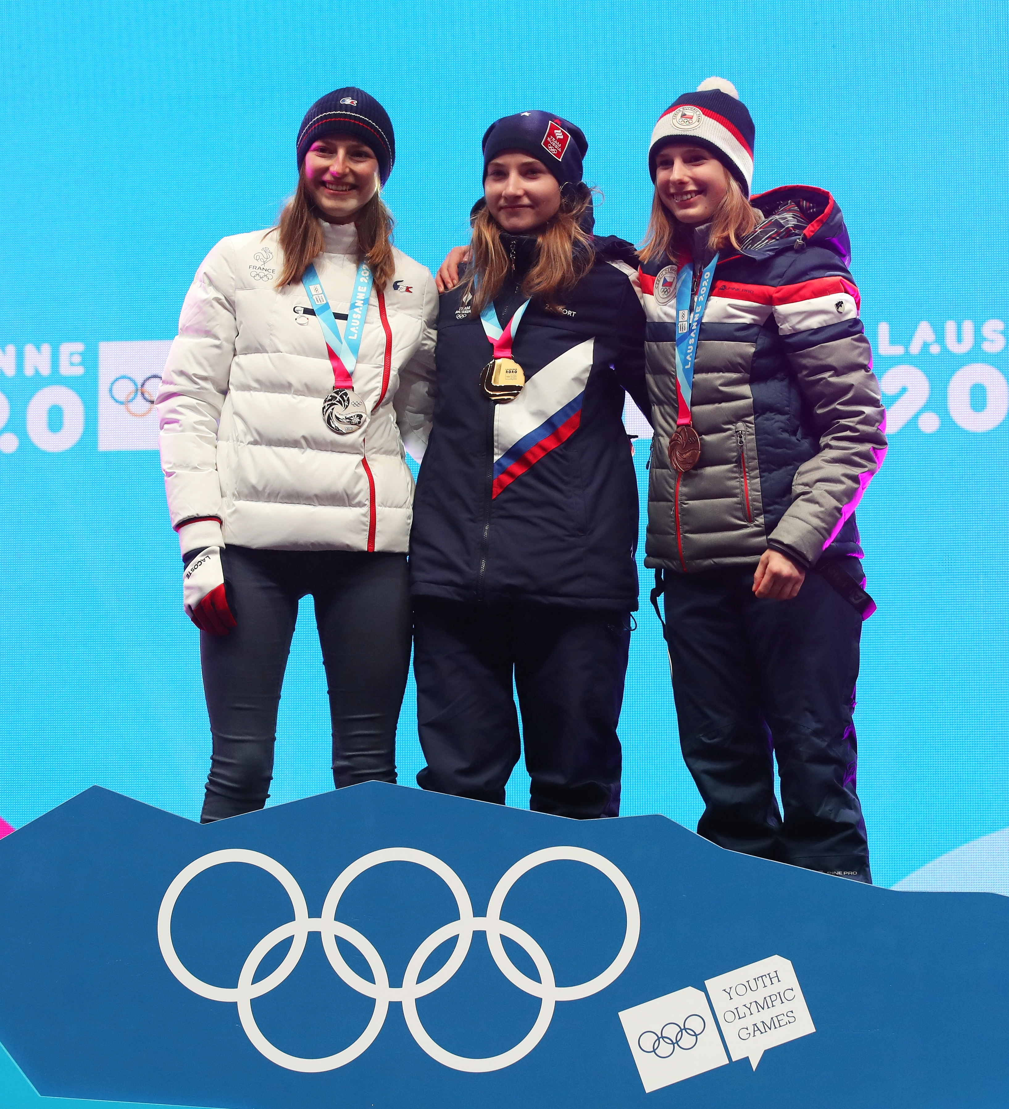 Medal Ceremony of Ski jumping – Women's Individual at the 2020 Winter Youth Olympics in Lausanne on 19 January 2020.